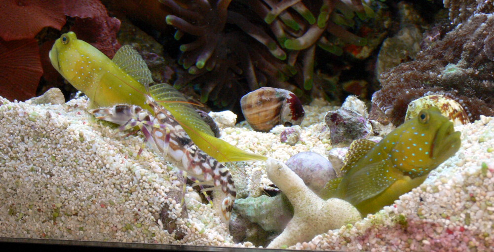 Cryptocentrus cinctus and Alpheus bellulus